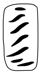 Drawing of of inner view the palatal plicae of Halongella schlumbergeri (Morlet, 1886), synonym: Plectopylis schlumbergeri (after Gude 1901).